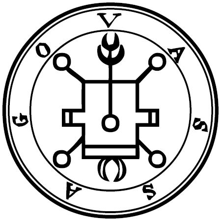 Vassago seal, THE BOOK OF THE GOETIA OF SOLOMON THE KING (1904)